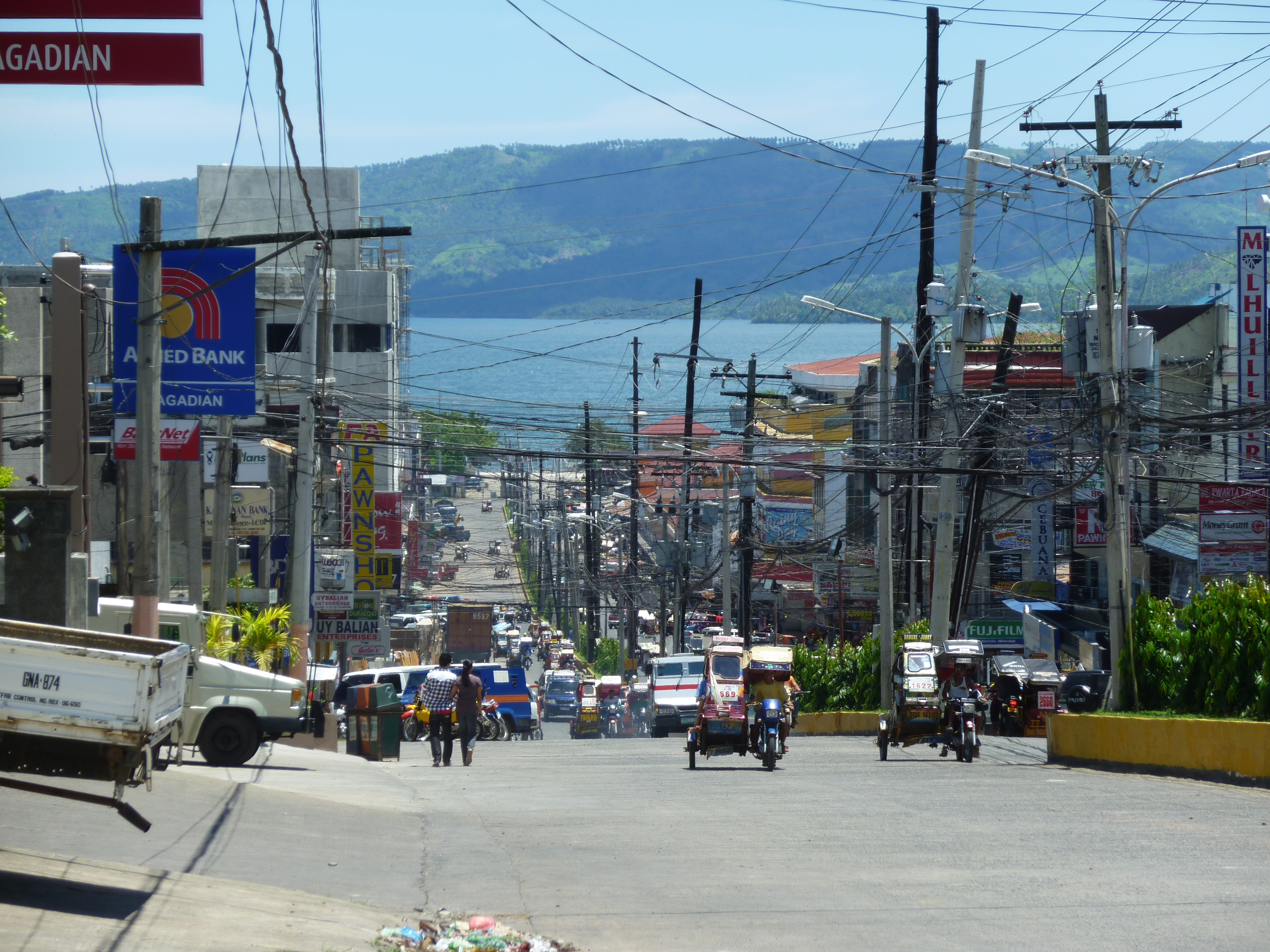 F S Pajares Ave Pagadian City, view of Illana Bay in the background.